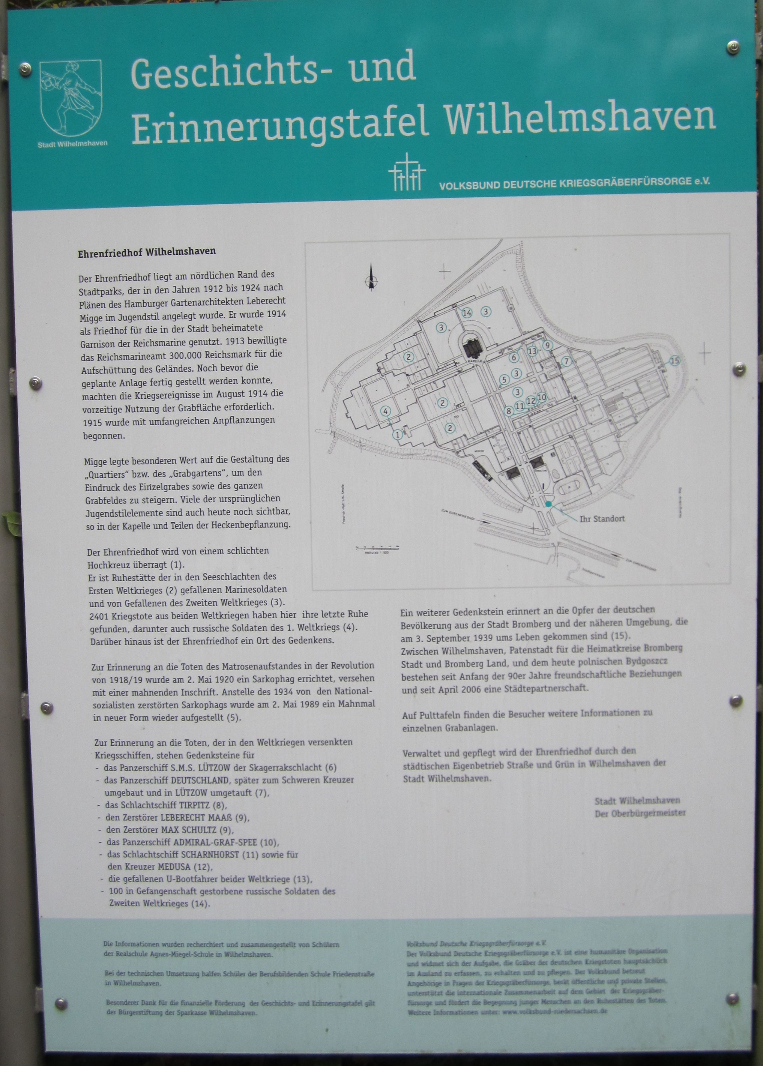 Table with historical data for Ehrenfriedhof in Wilhelmshaven, Germany.